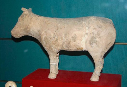 A pottery model of a cow from the Chinese Han Dynasty (202 BCE – 220 CE).